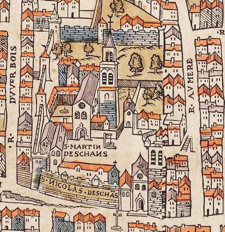 Abbey of St Martin-des-Champs on the plan de Truschet and Hoyau (1550).